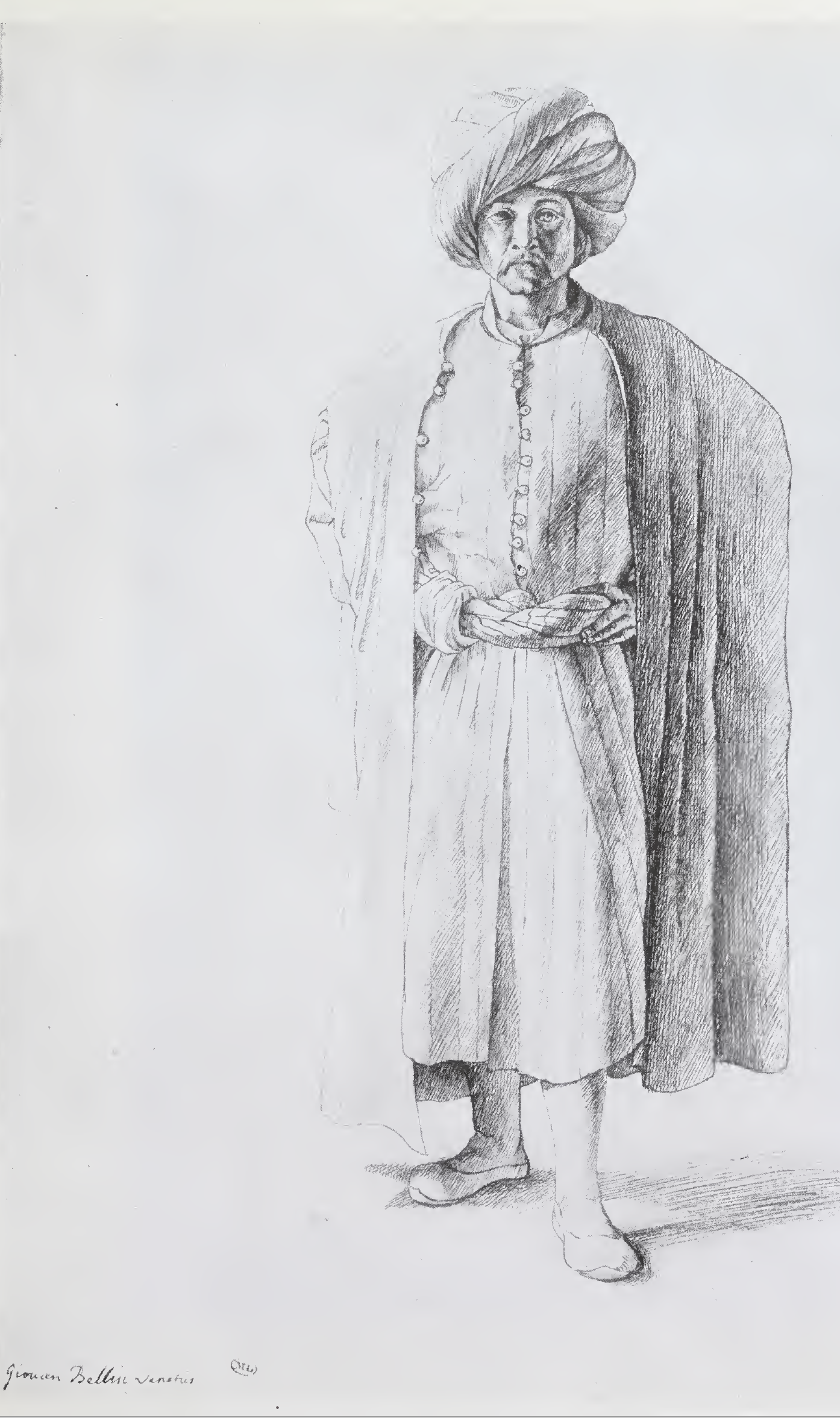 Workshop of Gentile Bellini, Standing Ottoman, late fifteenth century, ink on paper, 30 × 20 cm, DAG, Louvre, Paris.